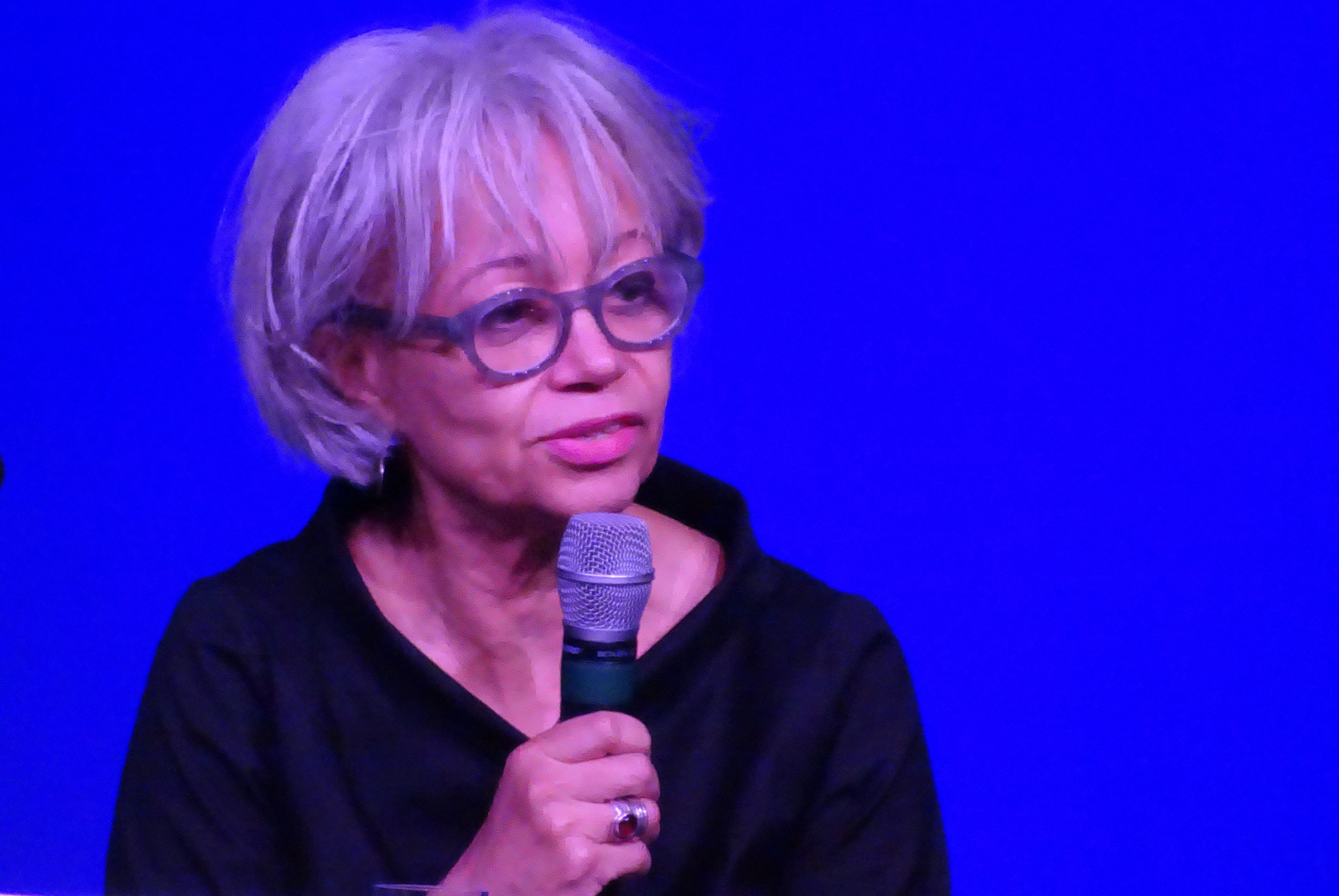 Patricia J. Williams speaking to an audience at The Nation in 2018